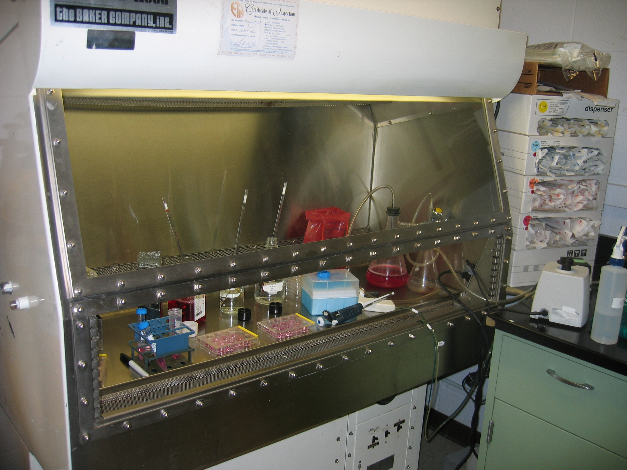 Laminar Flow Cabinet for Tissue Culture.